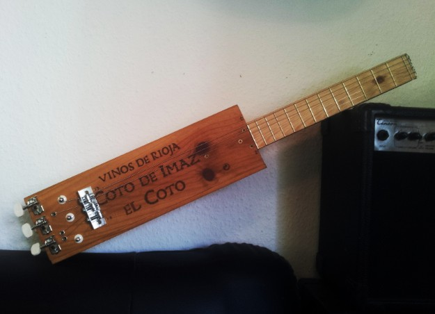 Cigar Box Guitar made out of a Wine Box from Rioja